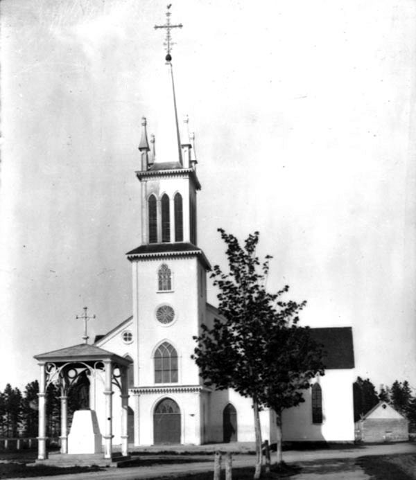 The Saint Polycarpe church in Petit-Rocher, New Brunswick, circa 1930.